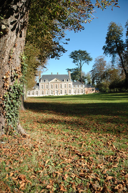 Vue partielle entree